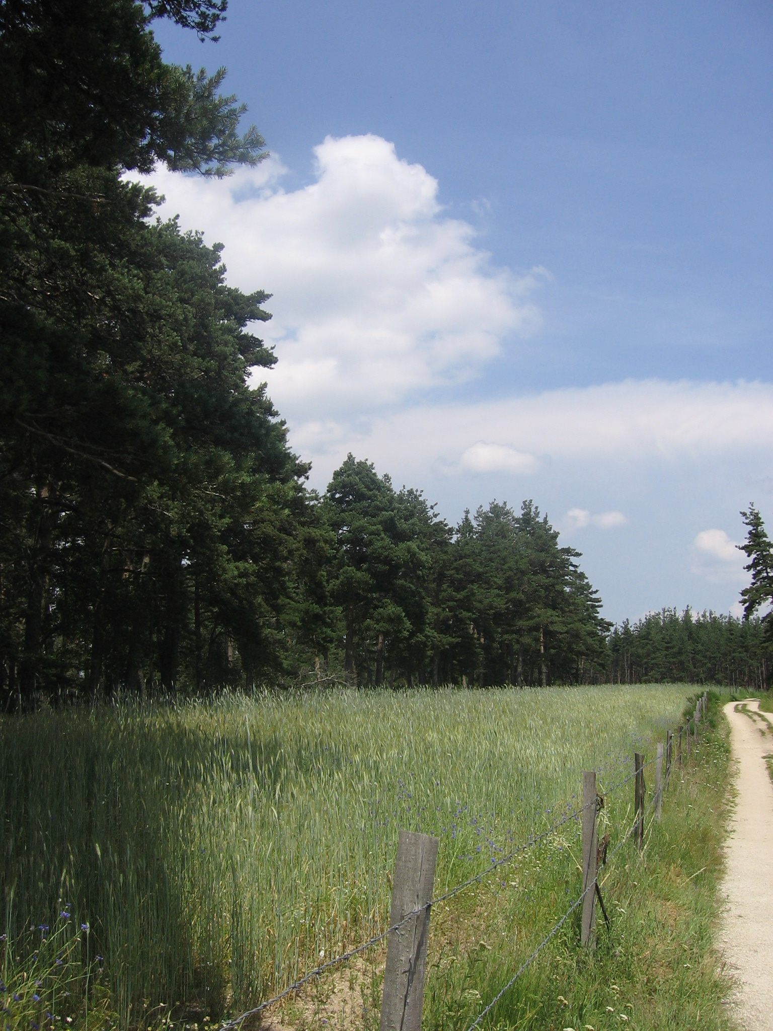 This is a snapshot taken on the way to SantIago de Compostela I shall document it end of August 2005 . Via Podiensis from Aumont-Aubrac to Aubrac